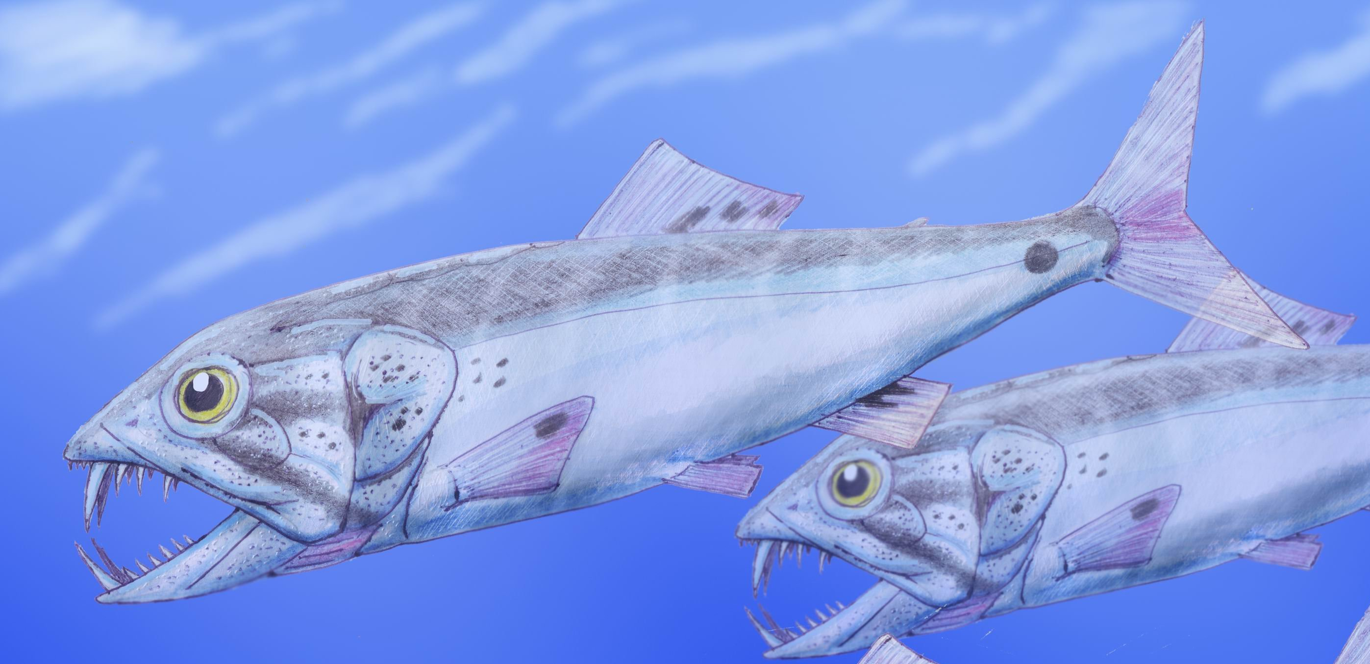 Enchodus